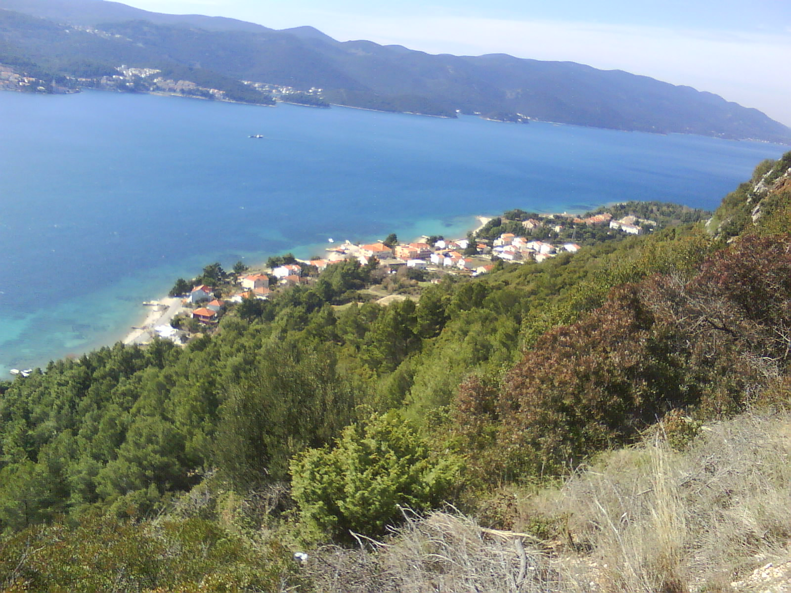 Saint Eliah hill at the Pelješac peninsula-view on Korčula and Perna